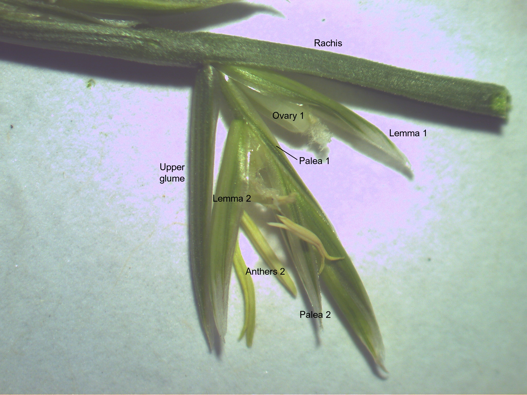 Spikelets are arranged in a spike and usually have 4-8 florets. Awns are absent or less than 3 mm long, the lower glume is absent and upper glume is greater than 75% of the spikelet’s length.